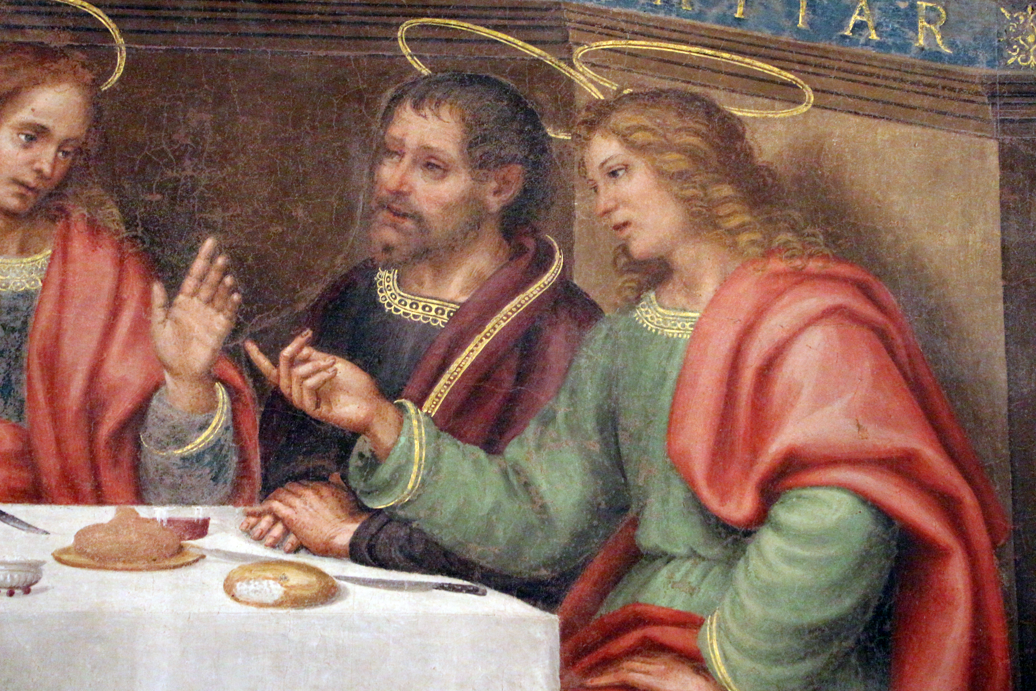 Candeli Last Supper